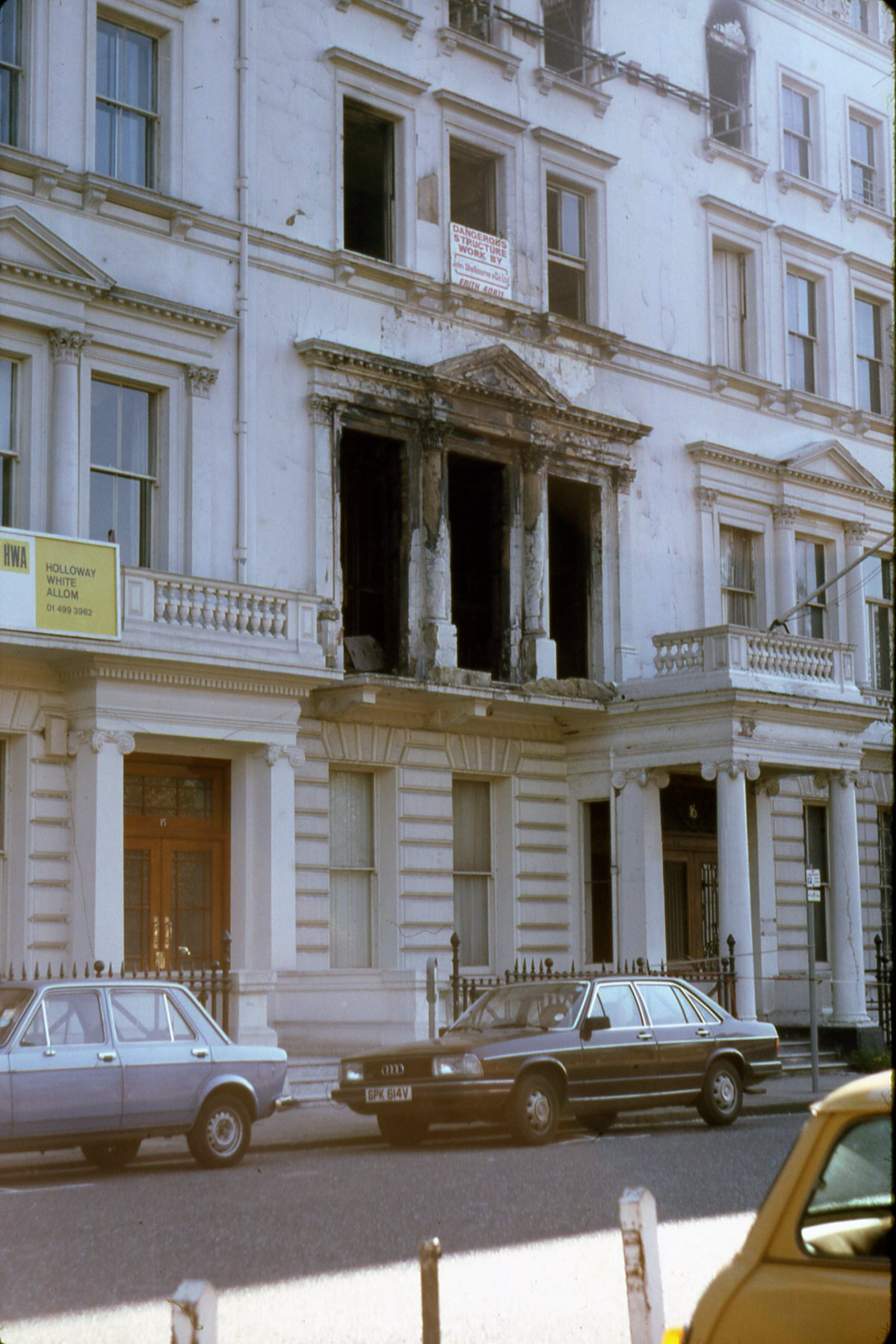 The Iranian embassy in London, severely damaged by fire after the Iranian Embassy siege